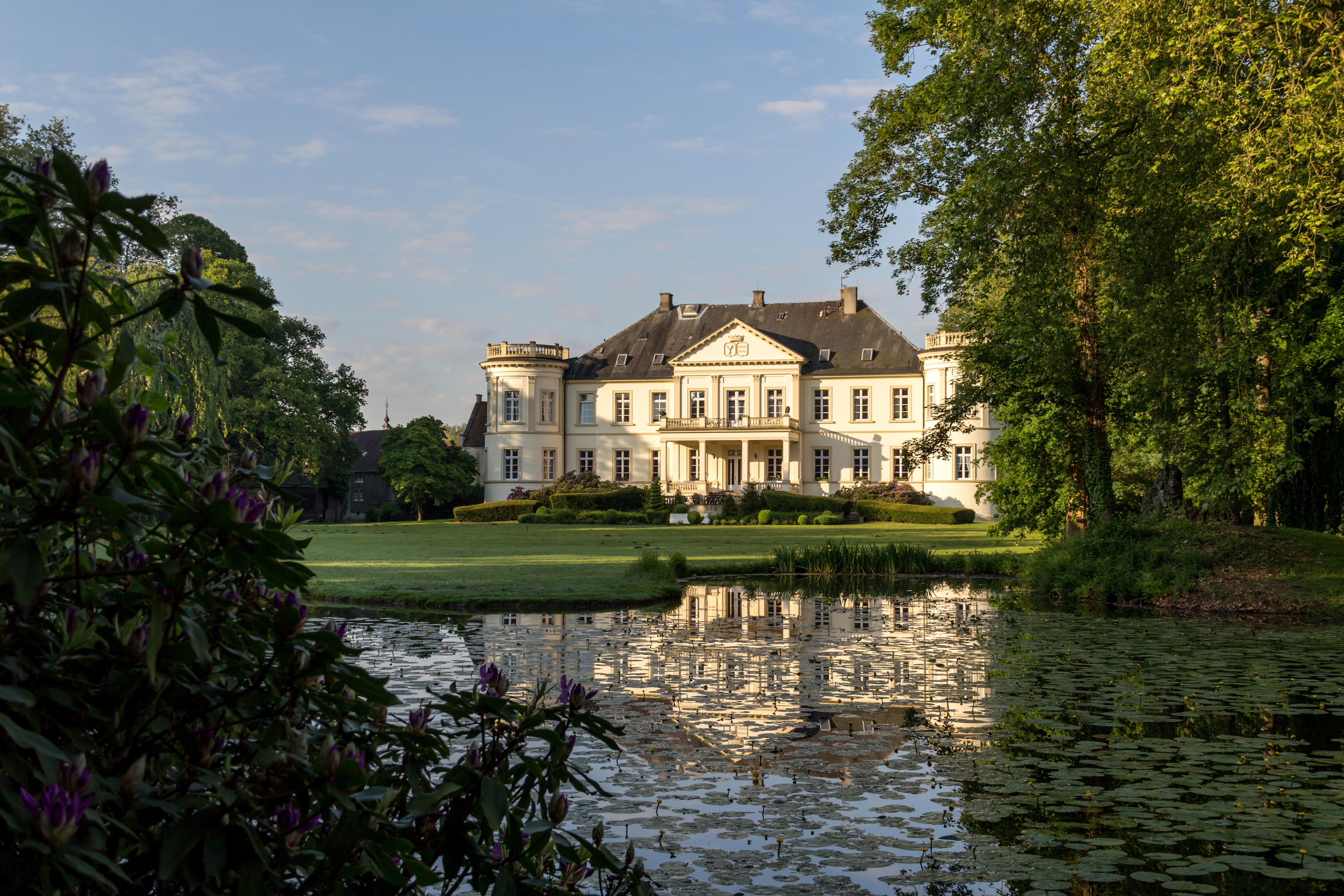 Buldern Castle (in Buldern, Dülmen, North Rhine-Westphalia, Germany); View from North East during sunrise This image shows a heritage building in Germany, located in the North Rhine-Westphalian city Dülmen (no. 120).